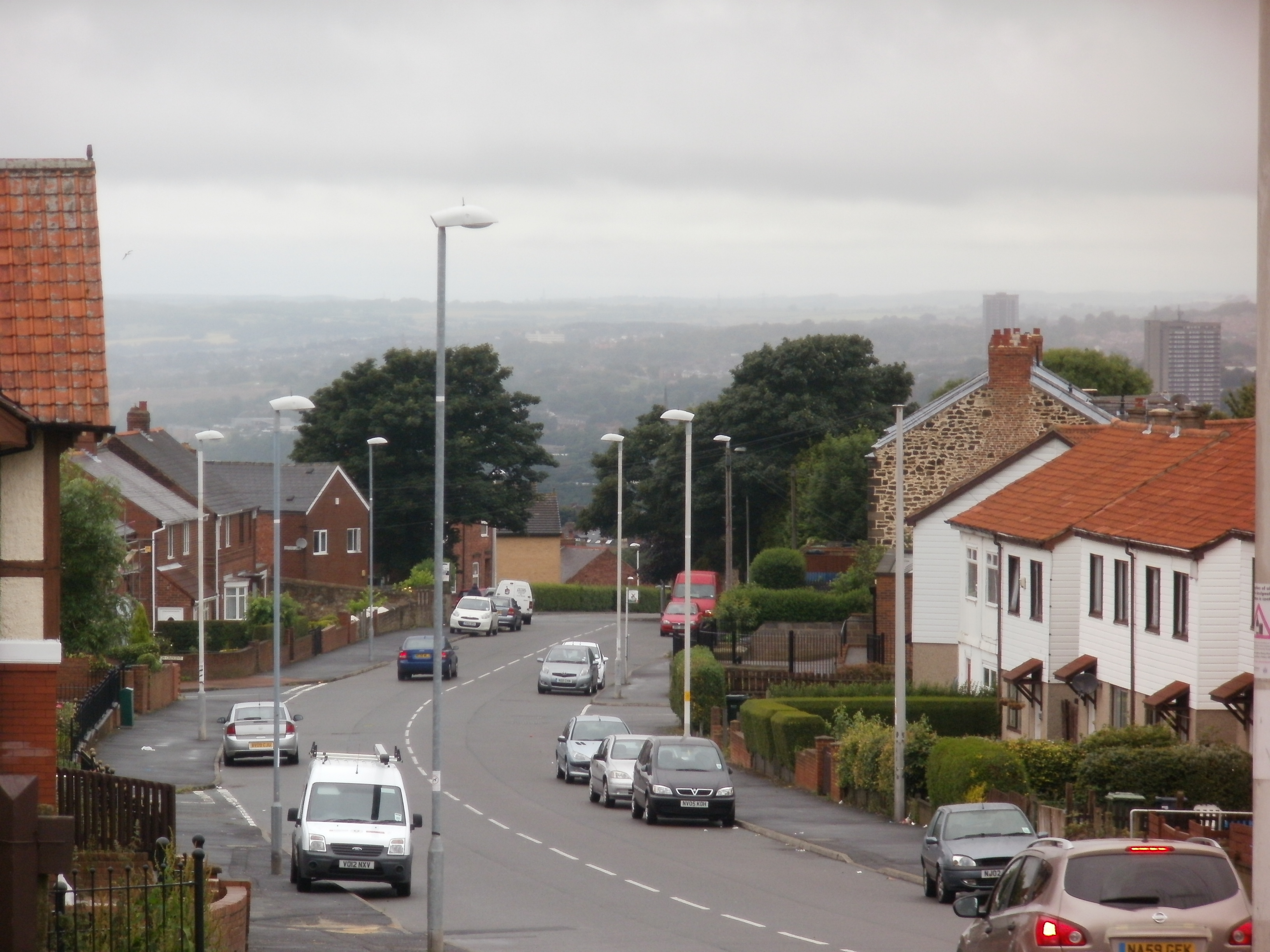 Even in bad weather, the view from Carr Hill Road in Gateshead is extensive